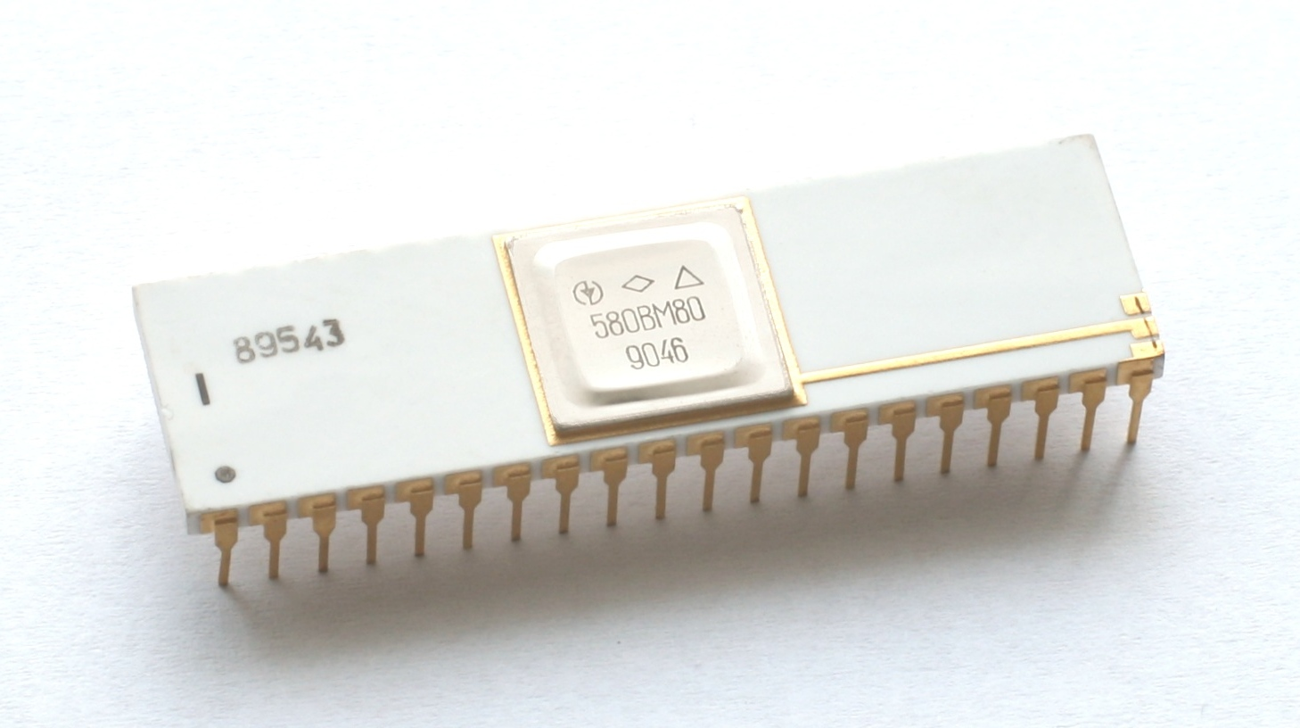 CPU USSR 580VM80, a i8080 clone.